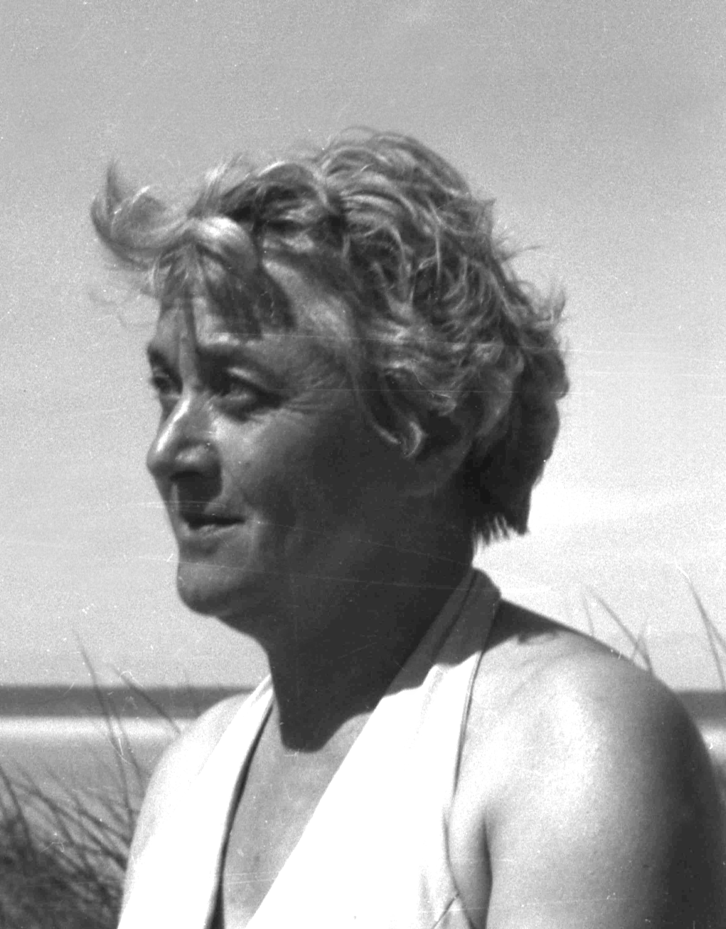 Portrait of Grete Dircks (1904-1968) sculptor, taken ca 1963 in Amrum